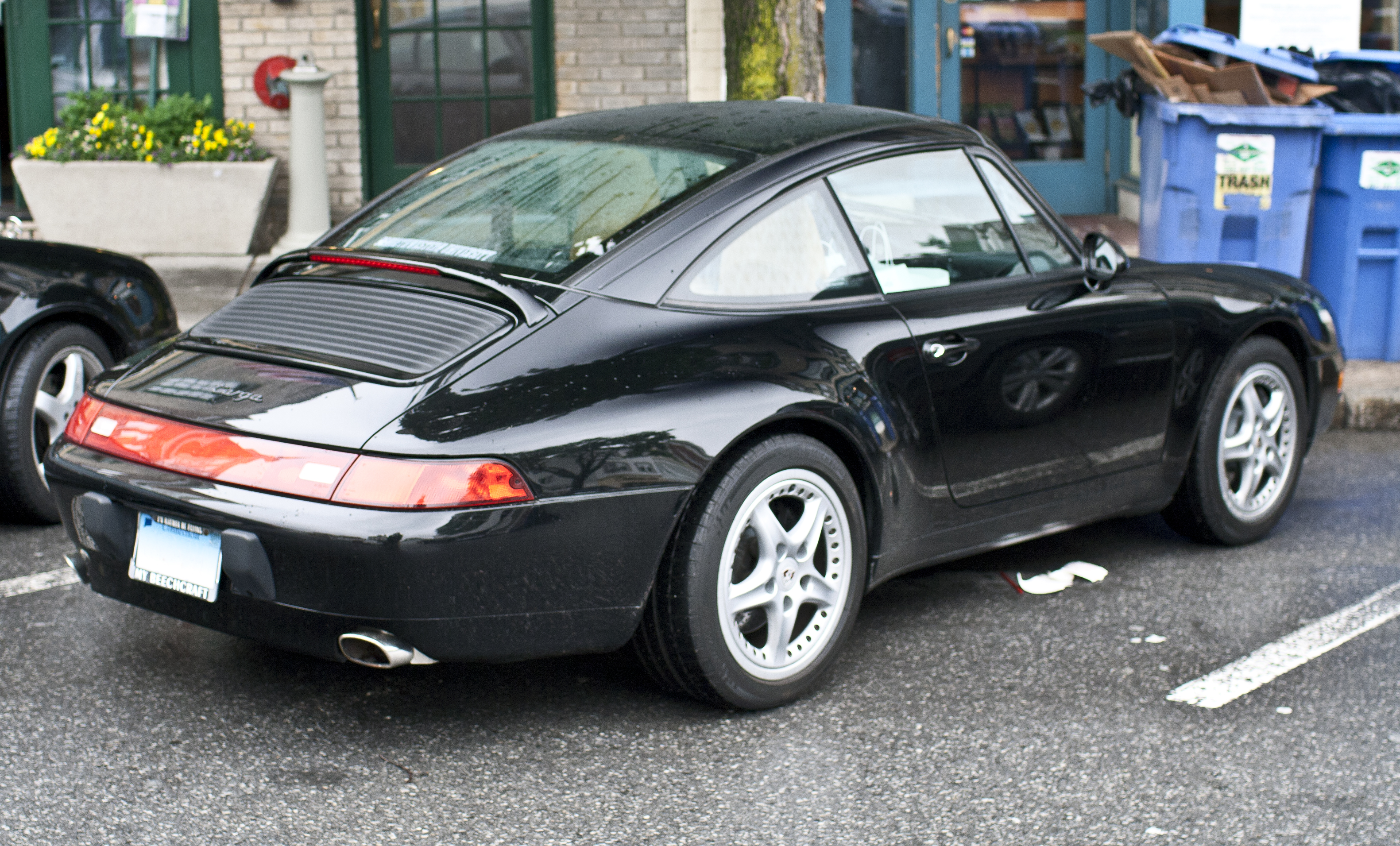 Porsche 993 Targa in Greenwich, CT. Brake light mounted on "basket handle" rear wing.